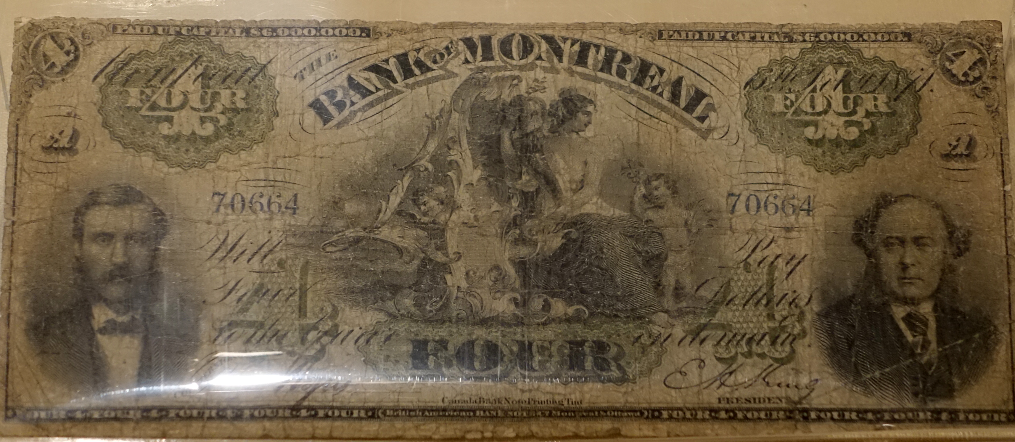 Exhibit in the Château Ramezay - Montreal, Quebec, Canada.